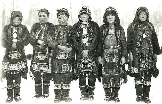 Group of Even (Lamut) women with national costumes. Okhotsk okrug. Early XX century.